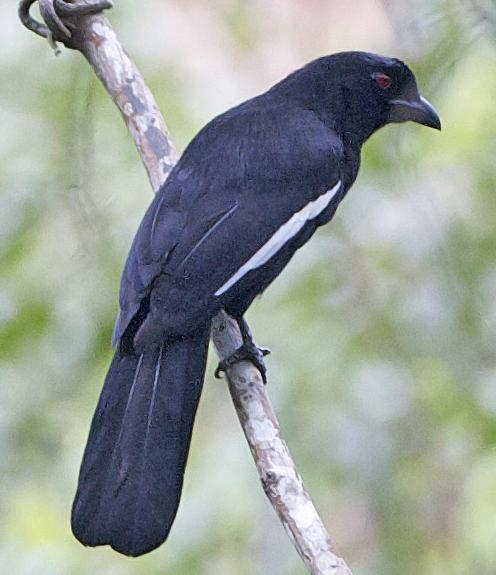 Black Magpie, Platysmurus leucopterus Panti Forest, Johor, Malaysia 22nd. April 2011